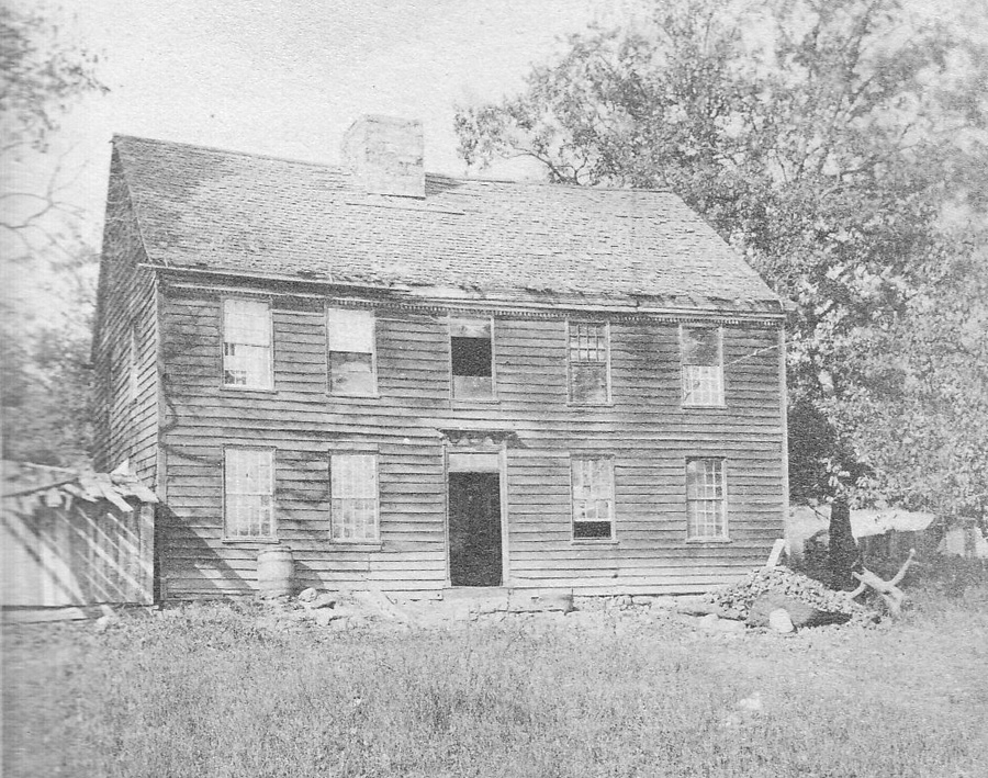 A photograph of the Ransom House in Plymouth, Luzerne Co., Pa.